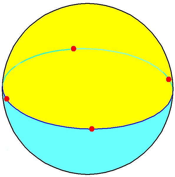 Dihedron {4,2 }